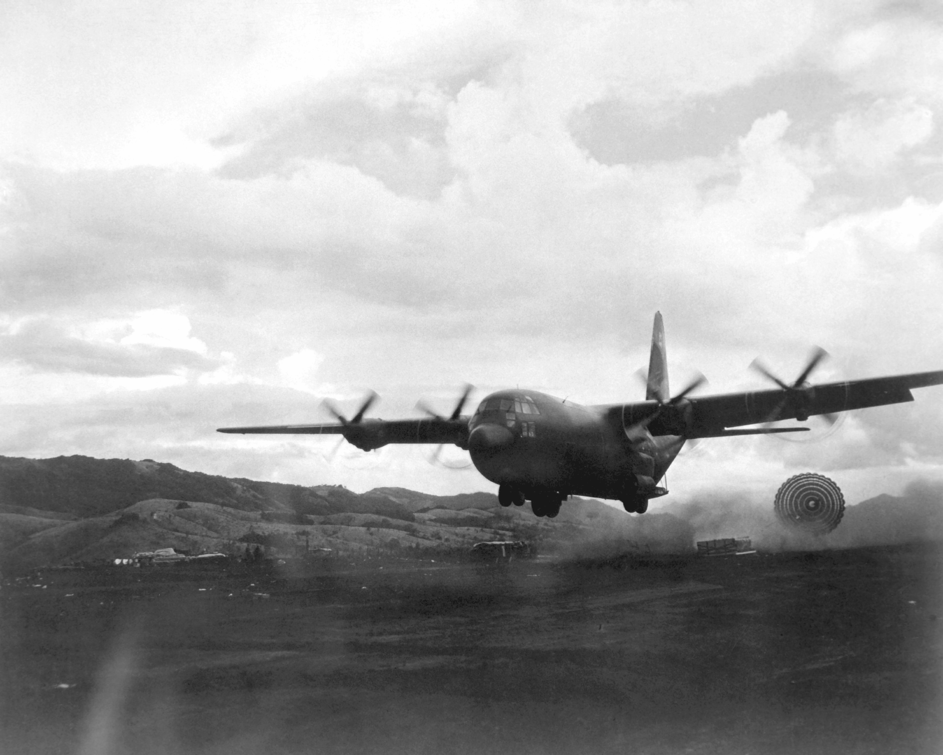 A U.S. Air Force Lockheed C-130B Hercules aircraft passes low over a drop zone in South Vietnam to deliver a pallet of supplies to ground forces in a forward area, in January 1967. The low altitude parachute extraction system (LAPES) was successfully used to resupply forward area sites where it was impossible for an aircraft to land.